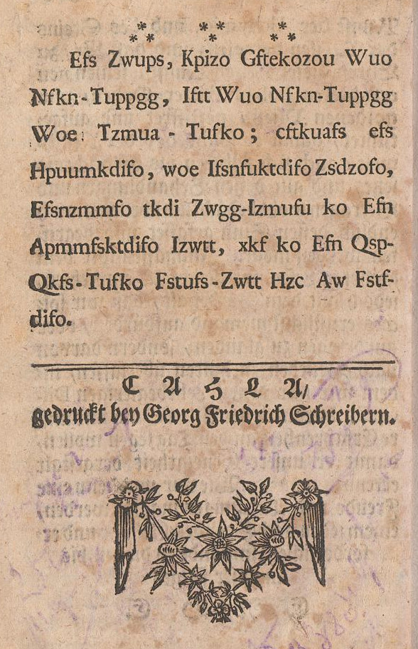 substitution cipher, from page 380 of Azoth et Ignis by Hermann Fictuld (pseud.) This cipher is believed to give the author's real name.